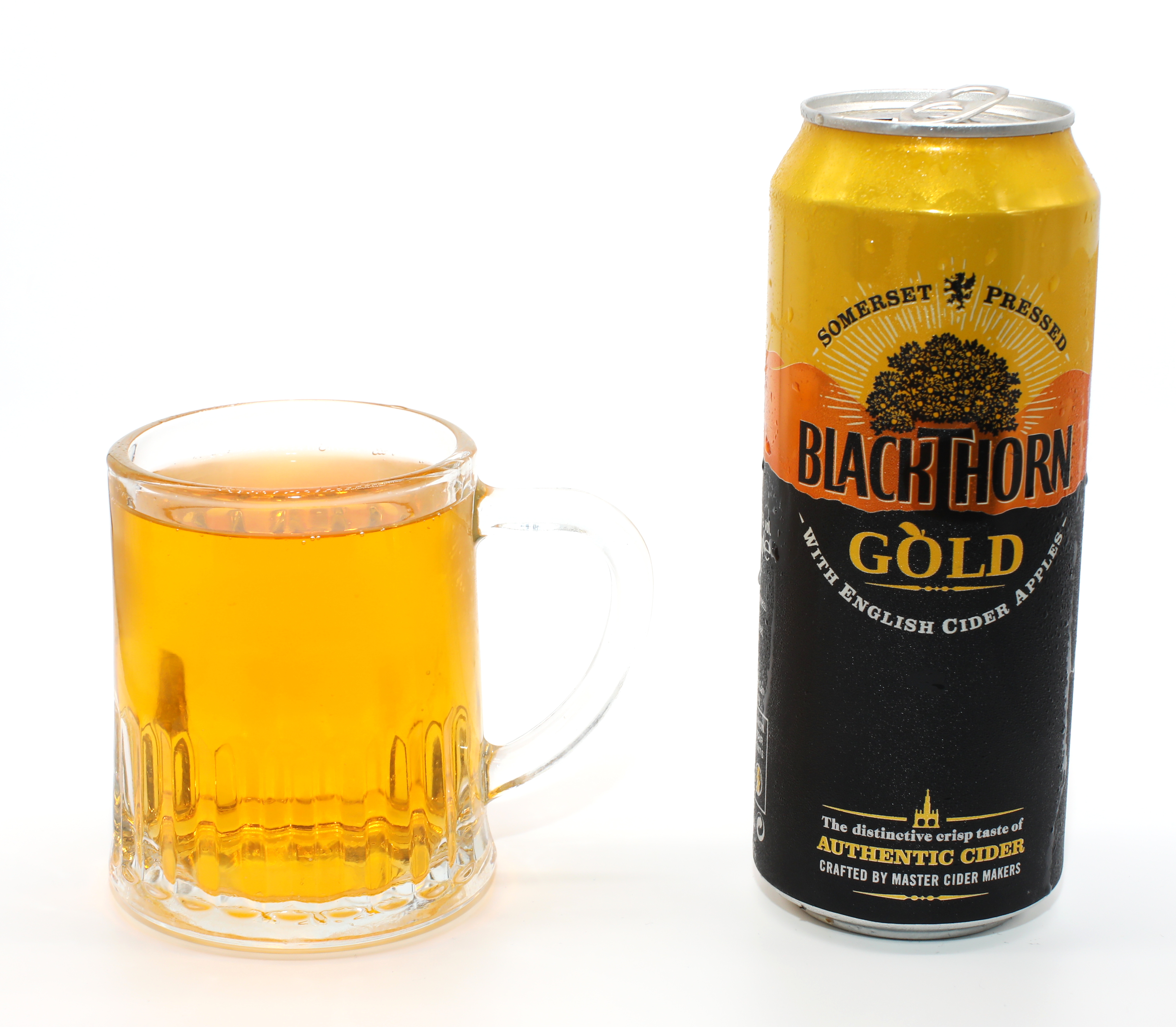 Photo of a can of blackthorn and a glass containing blackthorn cider